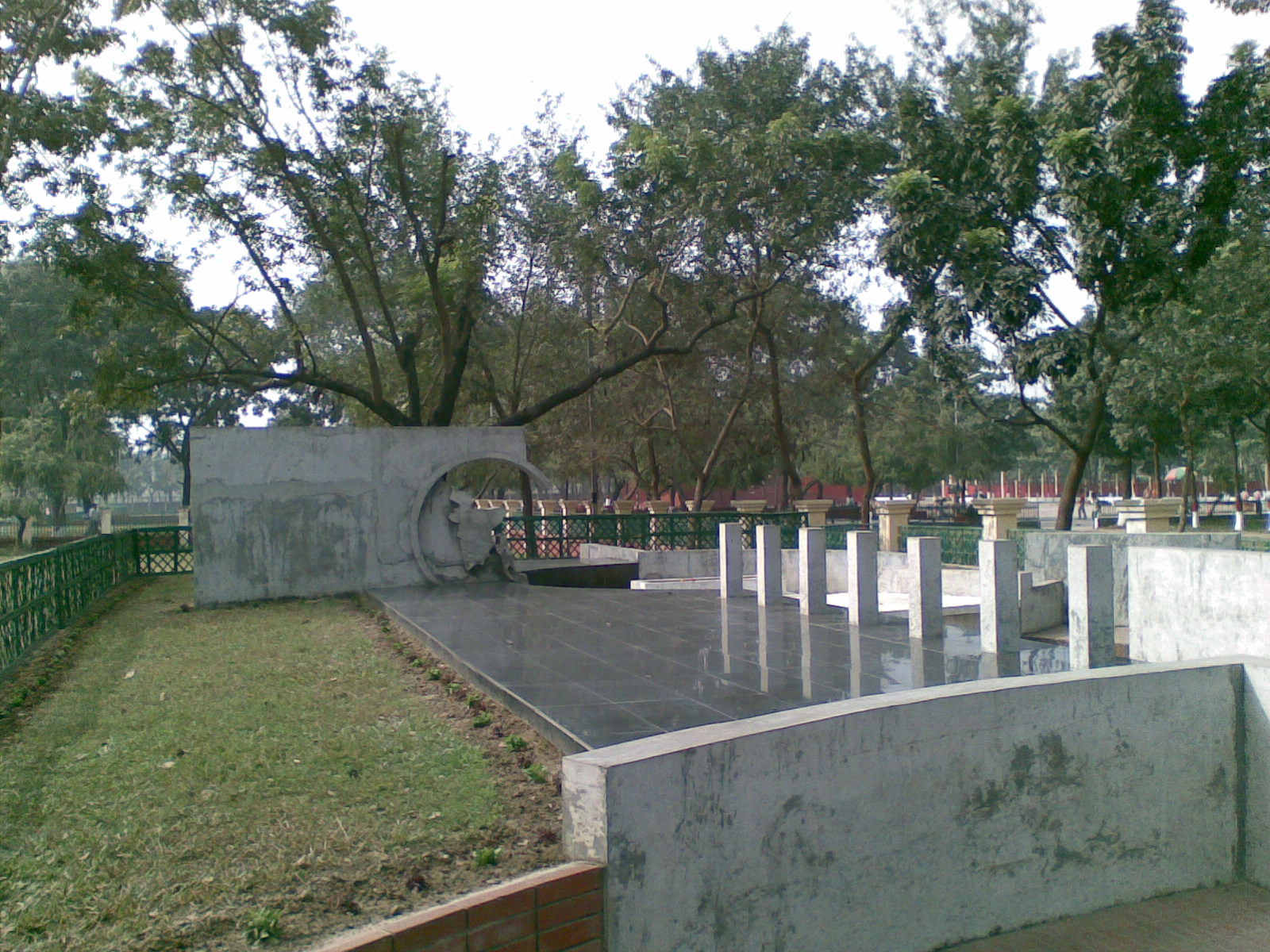 The Grave of Martyr Bir Shreshto Flt. Lft. Matiur Rahman